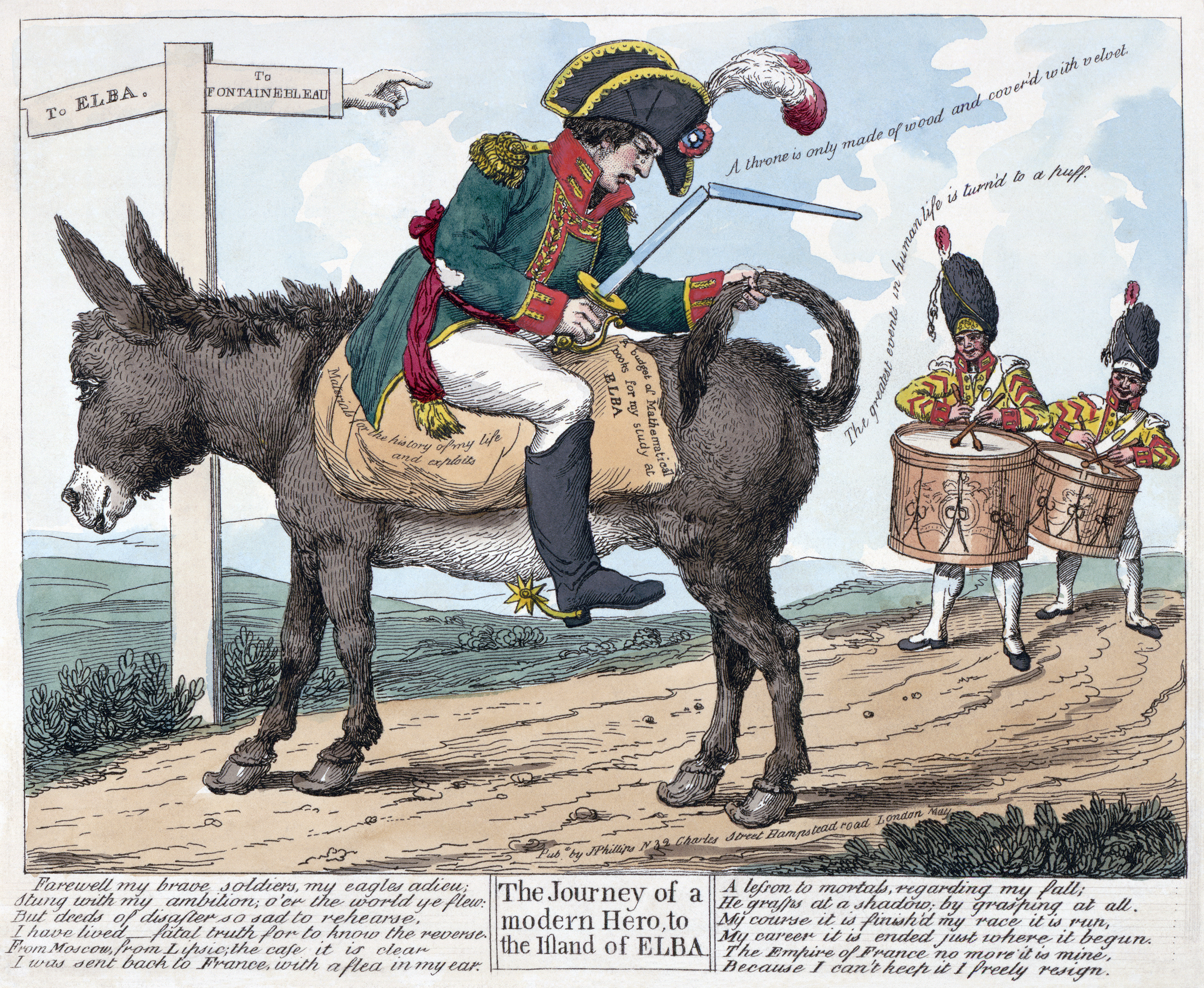 Print shows Napoleon I seated backwards on a donkey on the road "to Elba" from Fontainebleau; he holds a broken sword in one hand and the donkey's tail in the other while two drummers follow him playing a farewell(?) march. Includes twelve lines of verse.